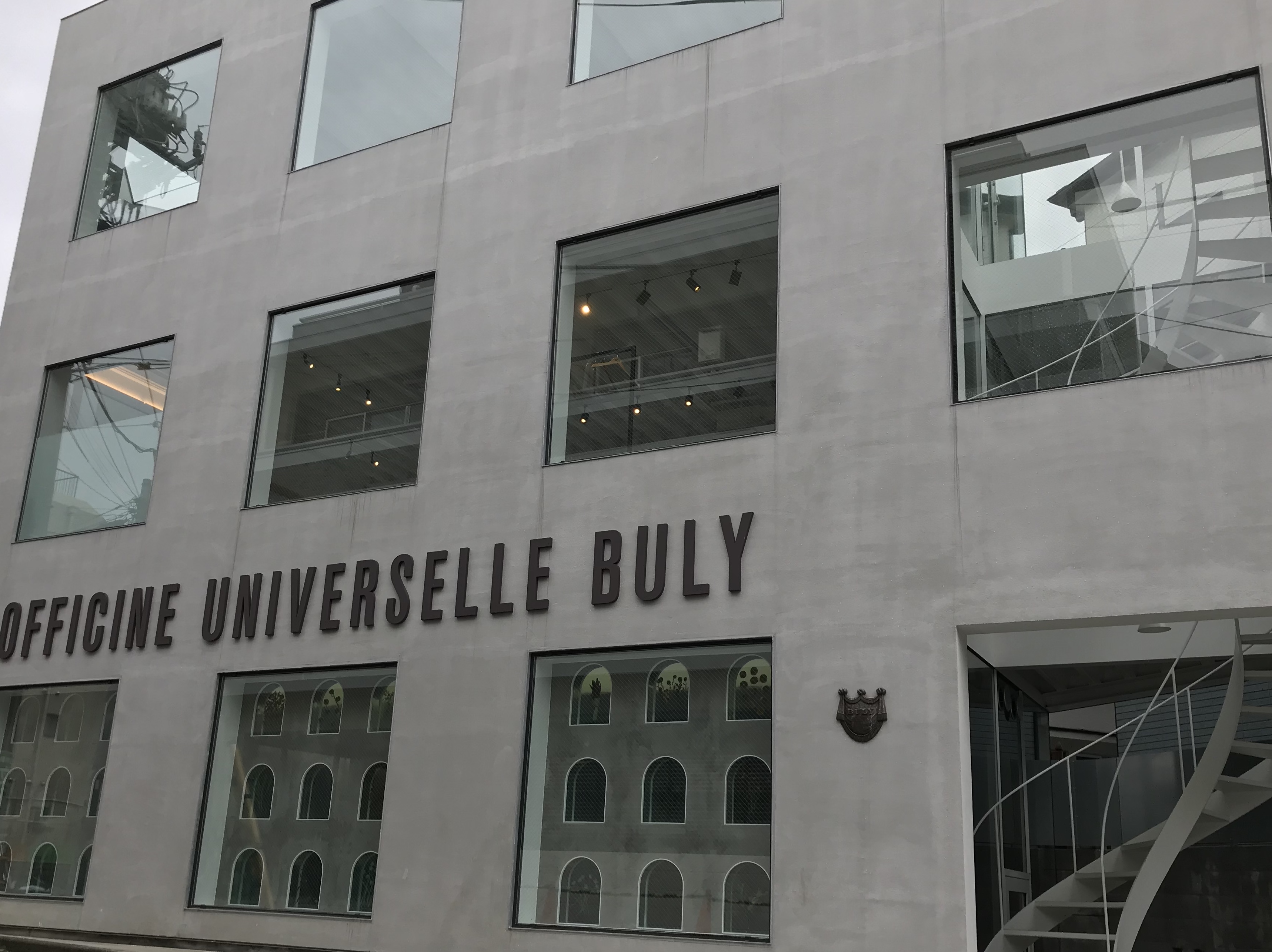 Overview of the Buly shop located Daikanyama, Tokyo.